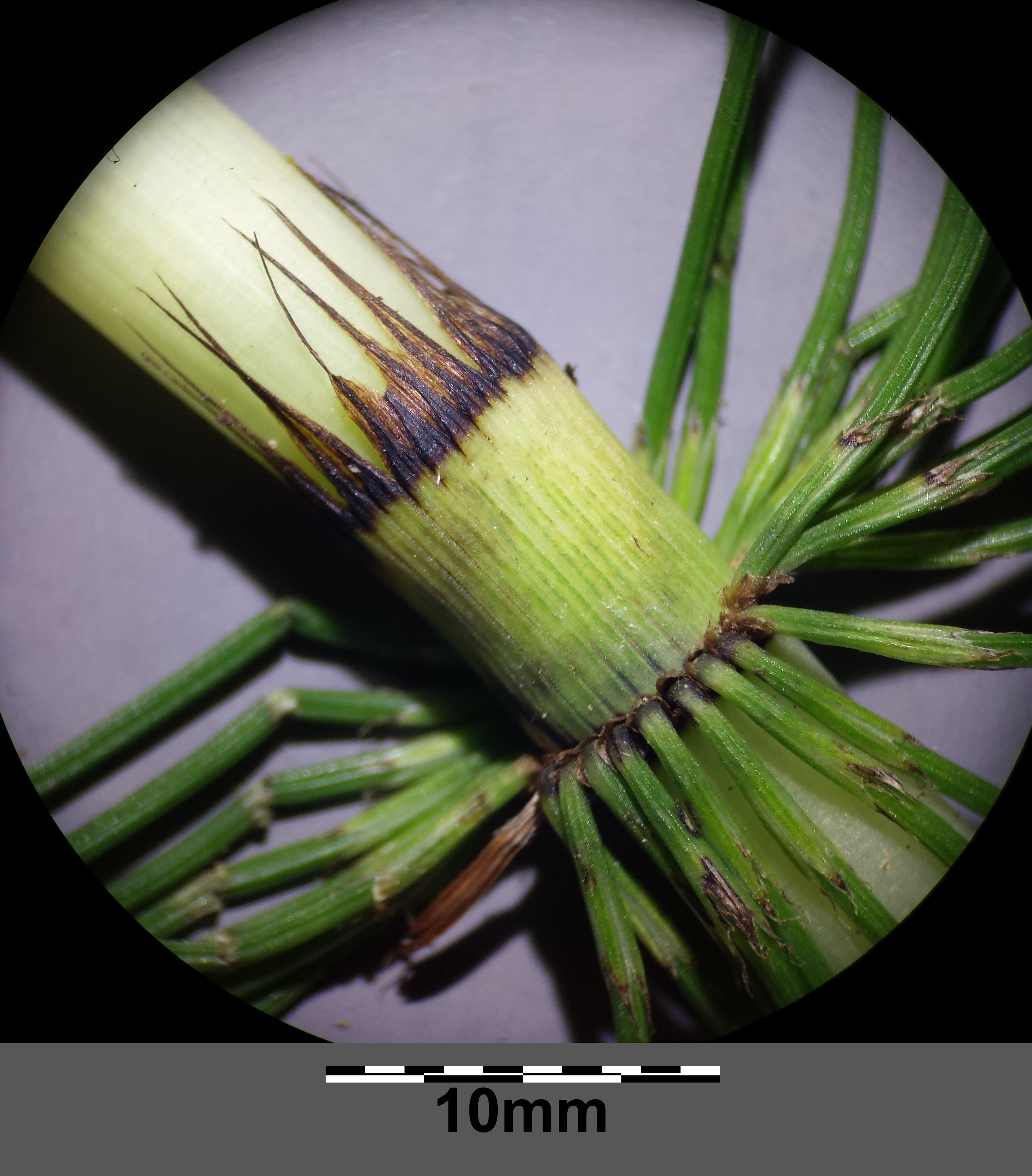 Stem with branches Taxonym: Equisetum telmateia (subsp. telmateia) ss Fischer et al. EfÖLS 2008 ISBN 978-3-85474-187-9 Location: Kreuttal, district Mistelbach, Lower Austria - ca. 230 m a.s.l. Habitat: wet meadows